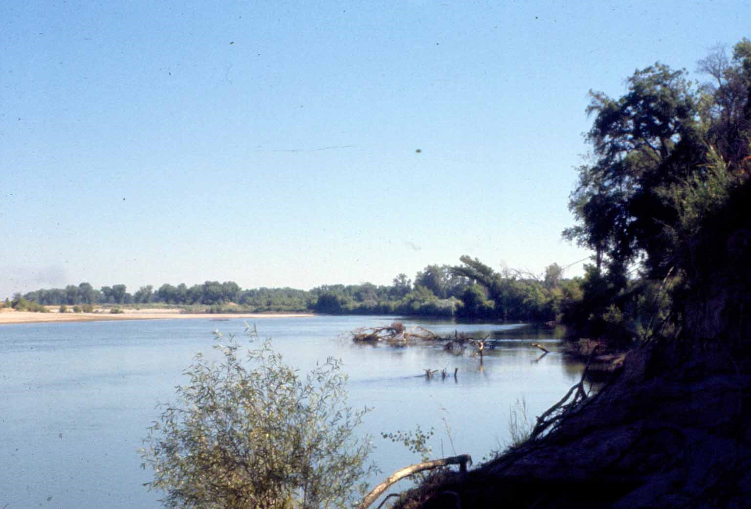 Feather River upstream from Bear River May 1962. CDFW file photo.